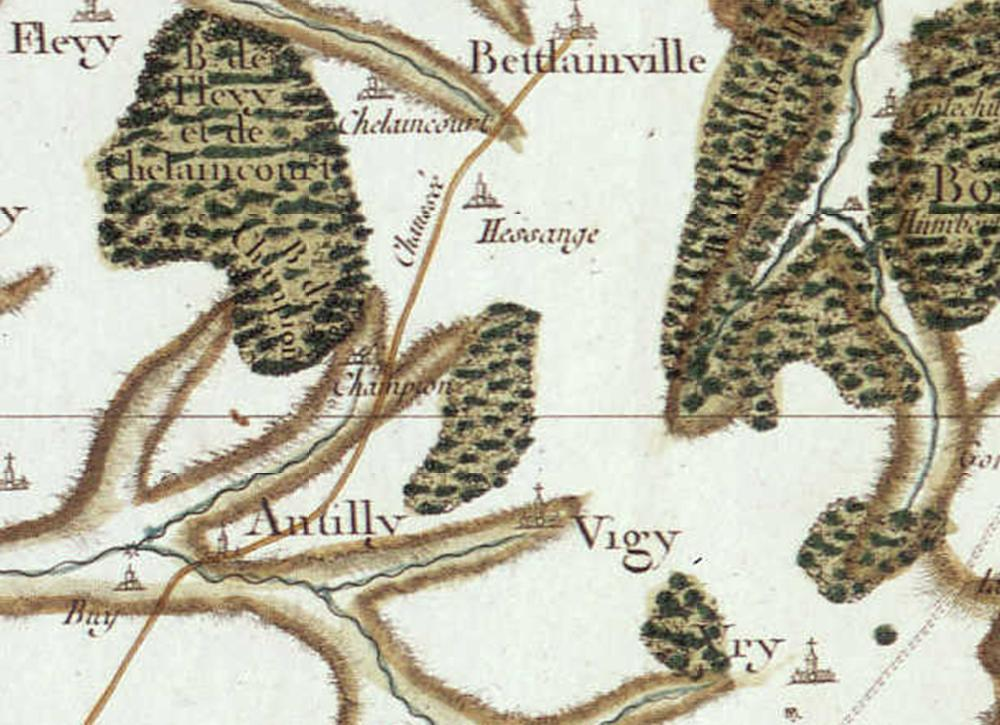 Carte de Cassini